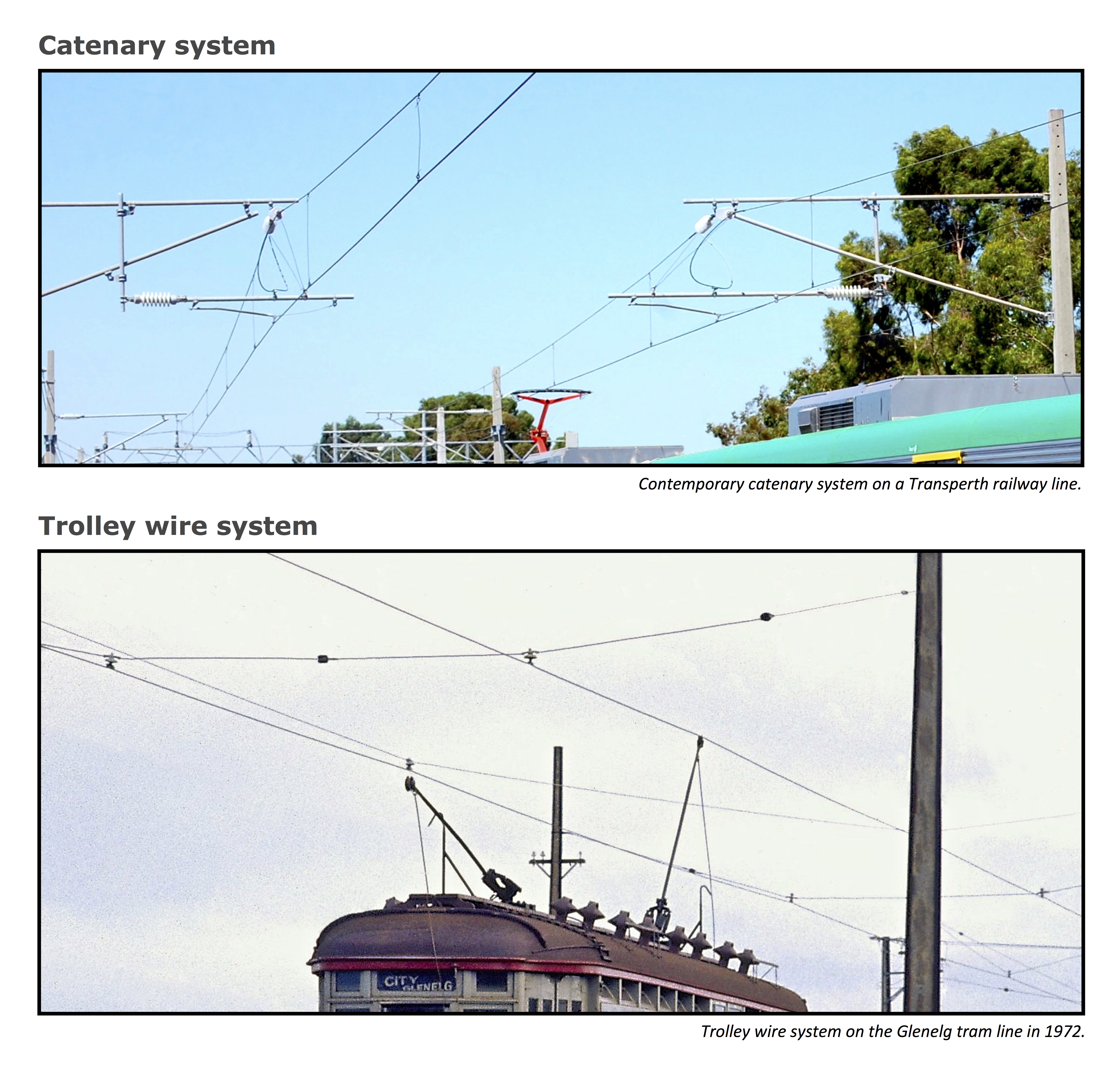 The two photos in this image show two types of wiring that feed (upper photo) electrically powered locomotives and (lower photo) trams or light rail vehicles. They are suited to higher-speed locomotives and lower-speed trams respectively. The photos are relevant to the Wikipedia articles "Overhead line" and "Glenelg tram line". The lower image was modified by removing intrusive vegetation.